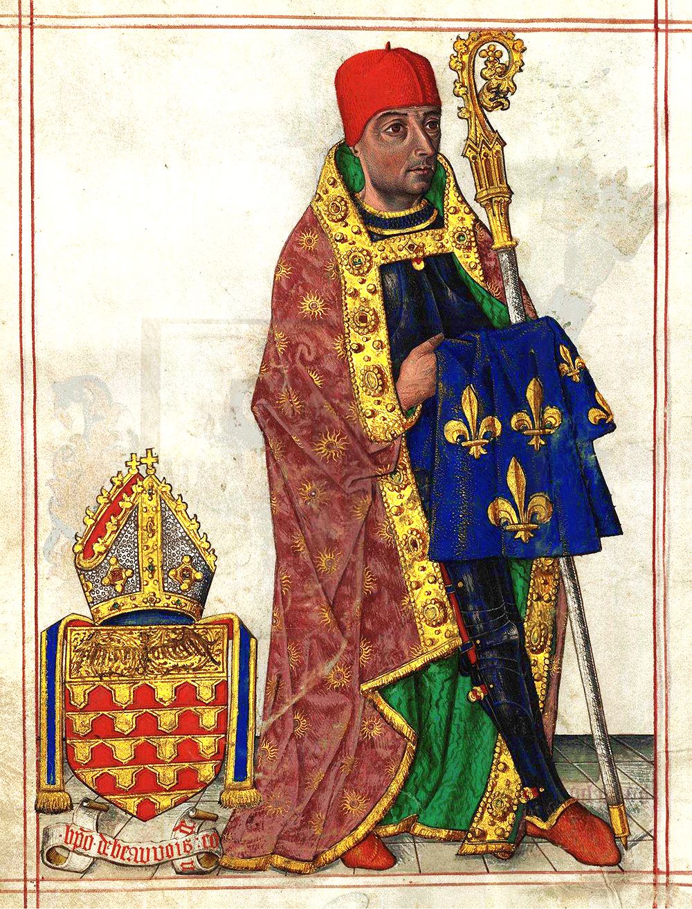 Bishop-Count of Beauvais